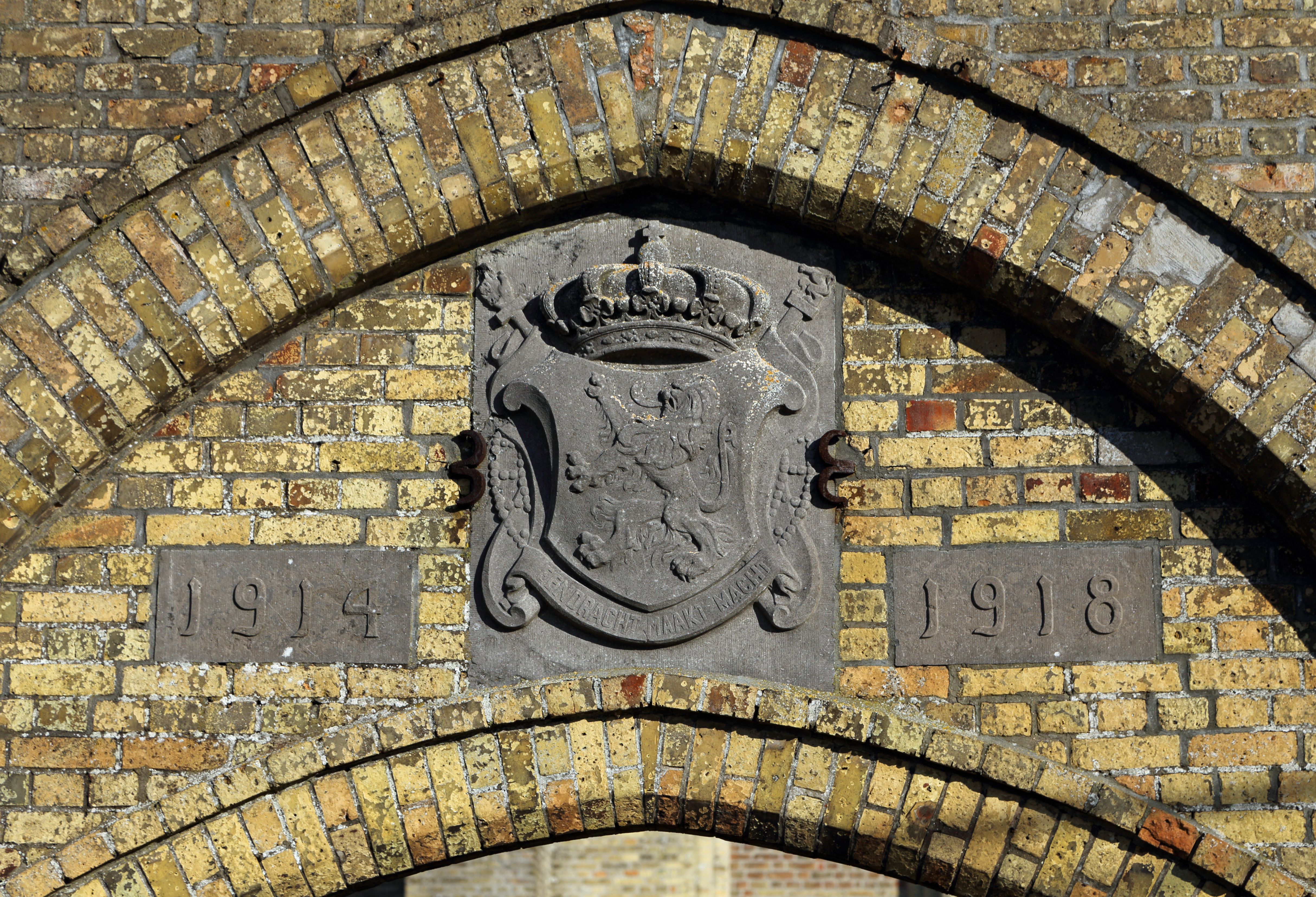 Oeren (municipality of Alveringem, province of West Flanders, Belgium): detail of the gate of the Belgian military cemetery